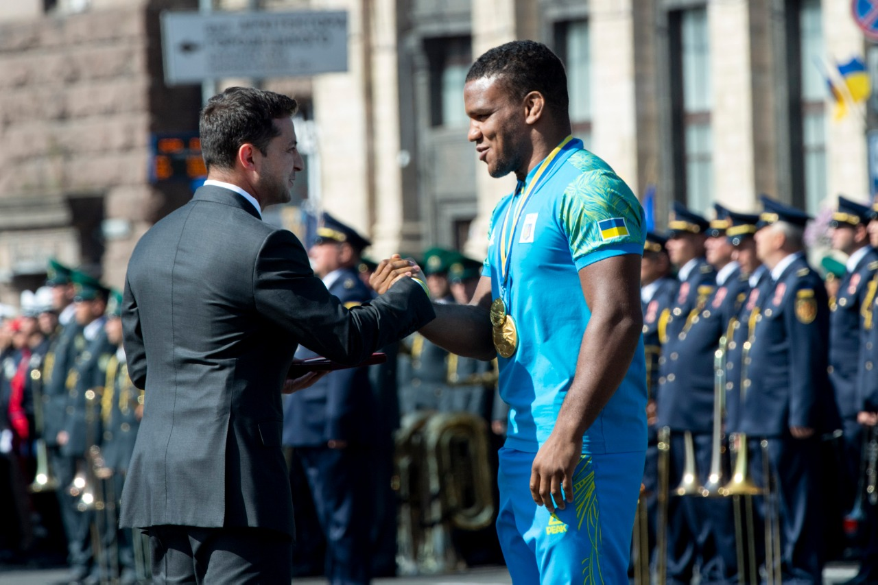 Speech by the President of Ukraine during the Independence Day festivities